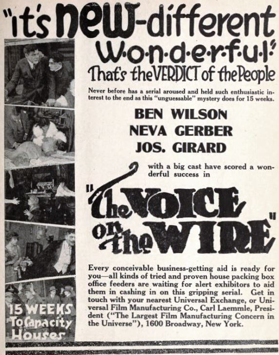 Advertisement for the American film serial The Voice on the Wire (1917) , on page 35 of the June 30, 1917 Universal Weekly.